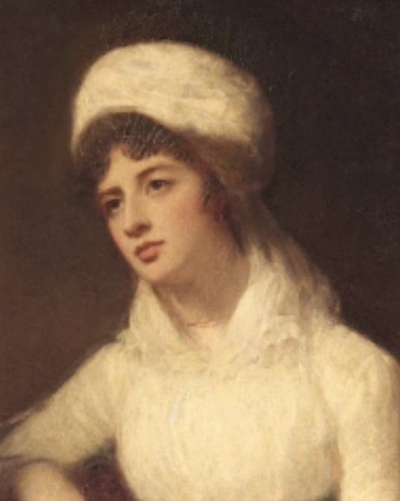 Portrait of Louisa Hervey, wife of Lord Liverpool, UK prime minister 1812 – 1827.